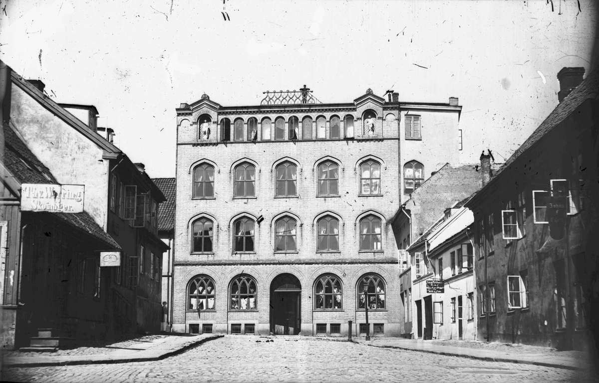 Nissen's Girls' School (Øvre Vollgate 15, Oslo)